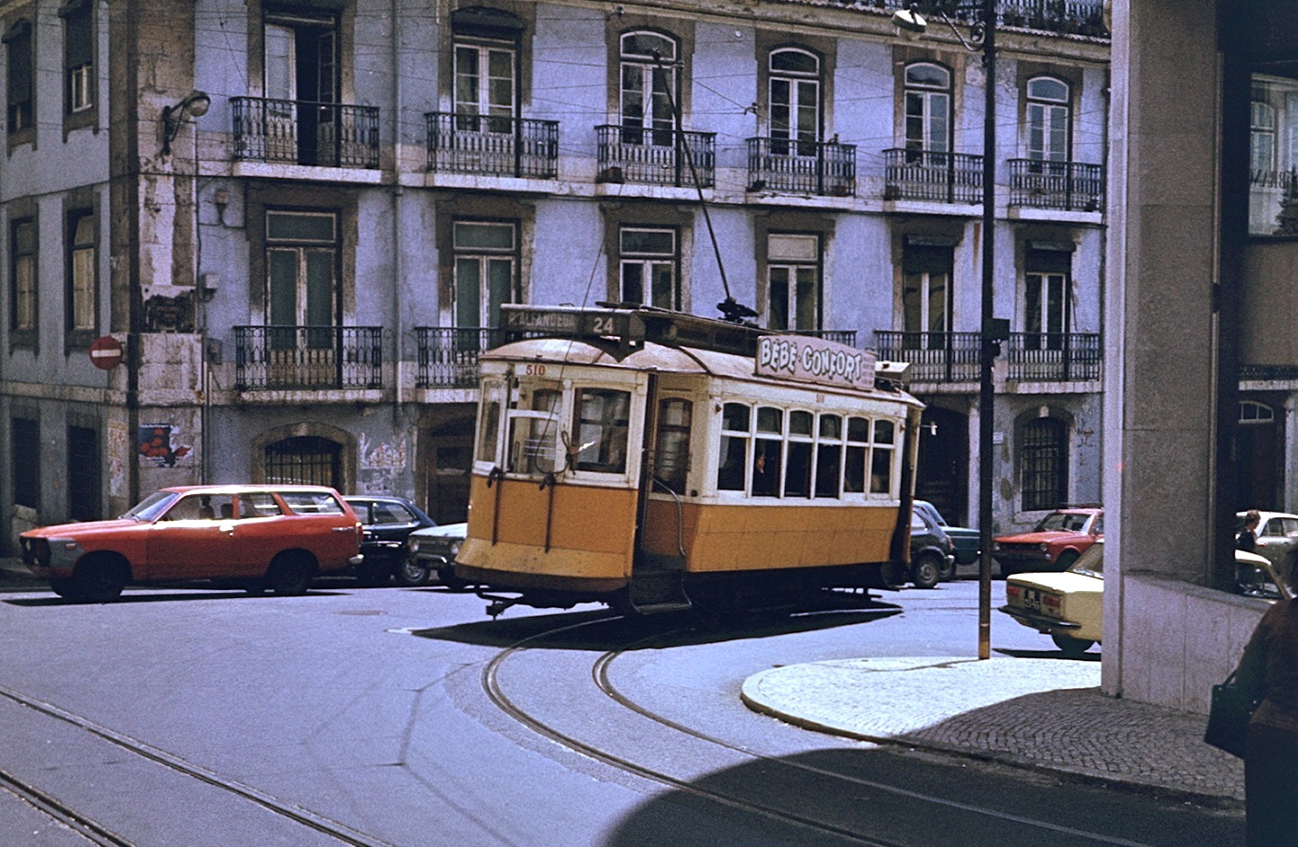 Lisbon tram 510, built in Lisbon by CCFL (Carris) in 1924 but fitted with a Brill 21E truck, turning onto Largo Rafael Bordalo Pinheiro from Rua Trindade, bound for the Carmo terminus of former route 24, in 1979. The last trams of this type (series 508–531) in the fleet of the Lisbon tram system were retired in 1980.